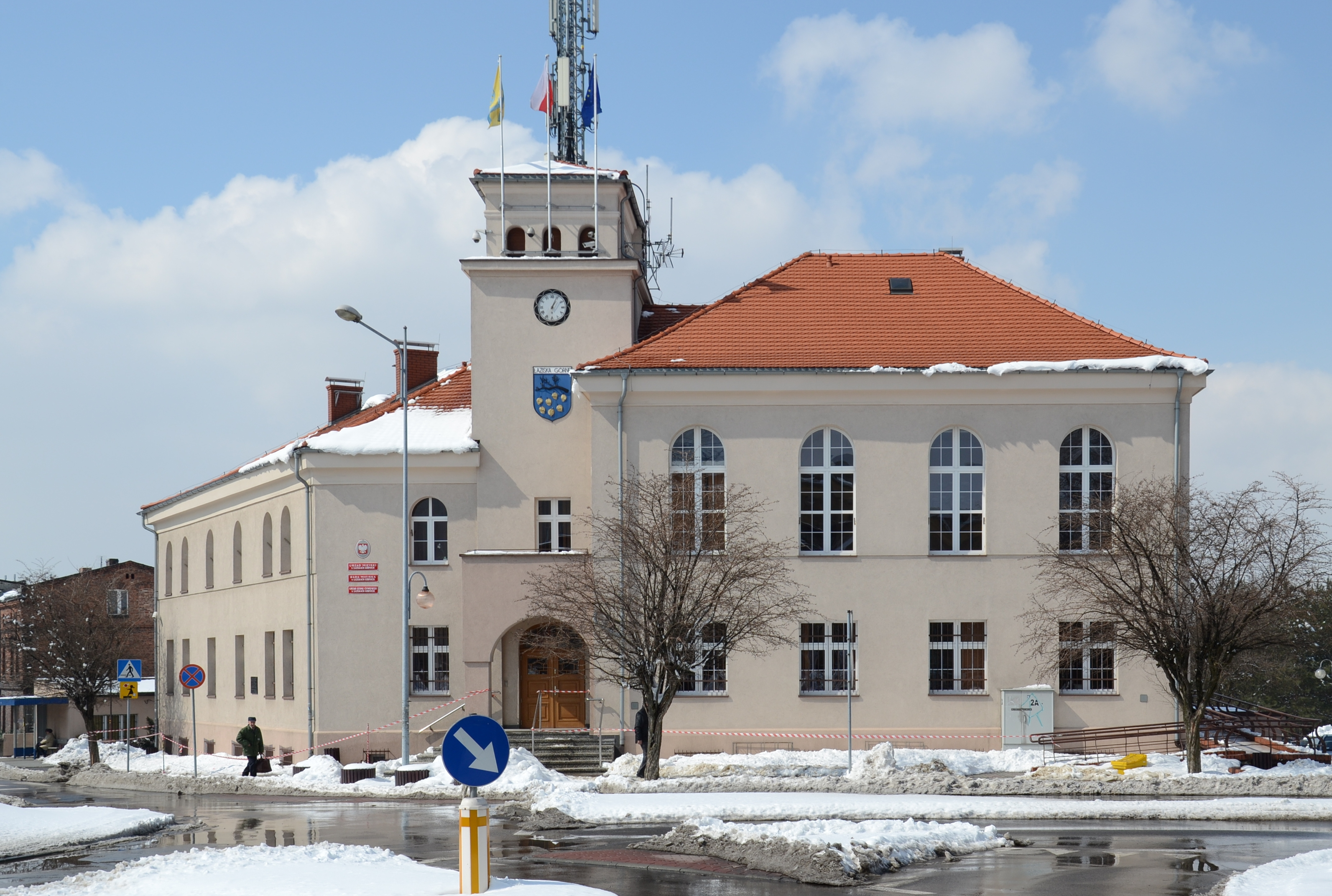 Town hall in Łaziska Górne (Ober Lazisk), Upper Silesia